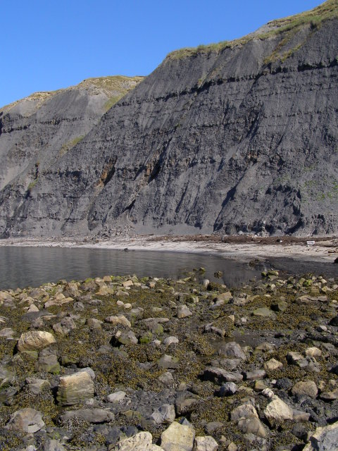 Beach and cliffs, Egmont Bight The grey cliffs here are of Upper Kimmeridge Clay, and prone to erosion by storm waves coming in from the south-west. The small rocks in the foreground are the eroded remains of the foot of a mudslide from the Houns-tout cliff.